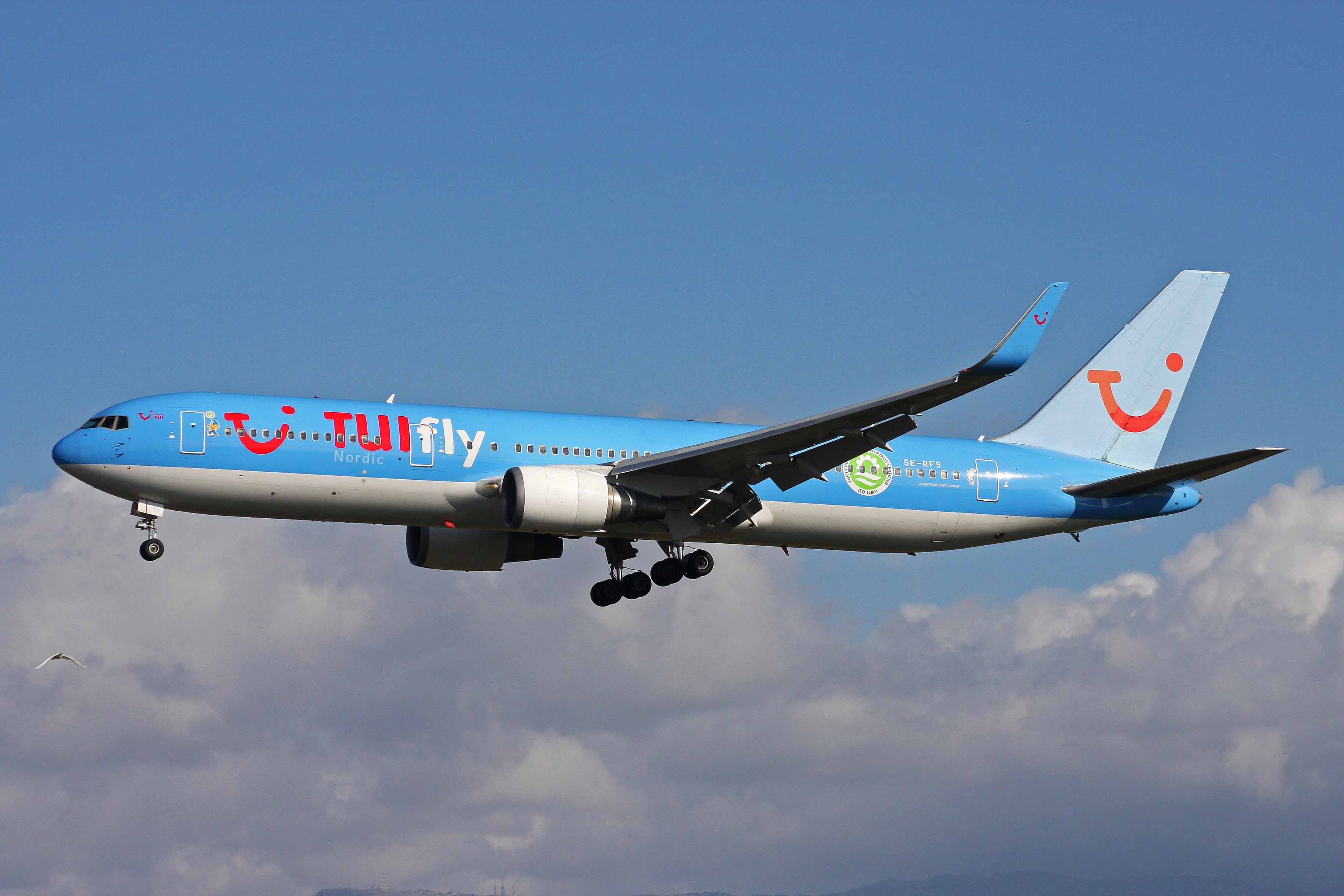 With additional 'Green' award logo.